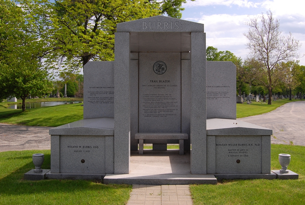 Roland Burris burial site in Oak Woods Cemetery in Chicago, Illinois, United States